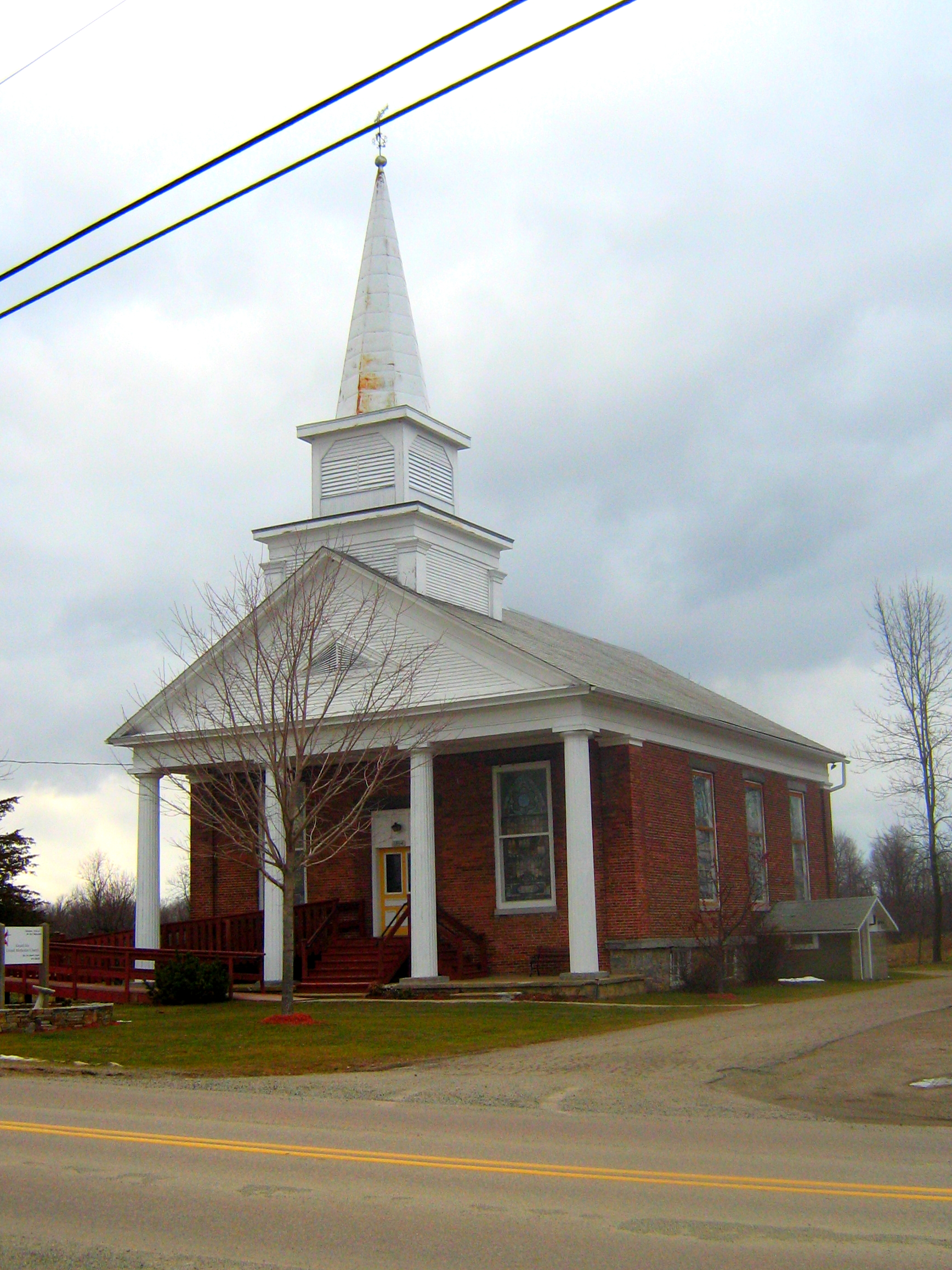 Congregational Church of Grand Isle (a/k/a Grand Isle Union United Methodist Church)